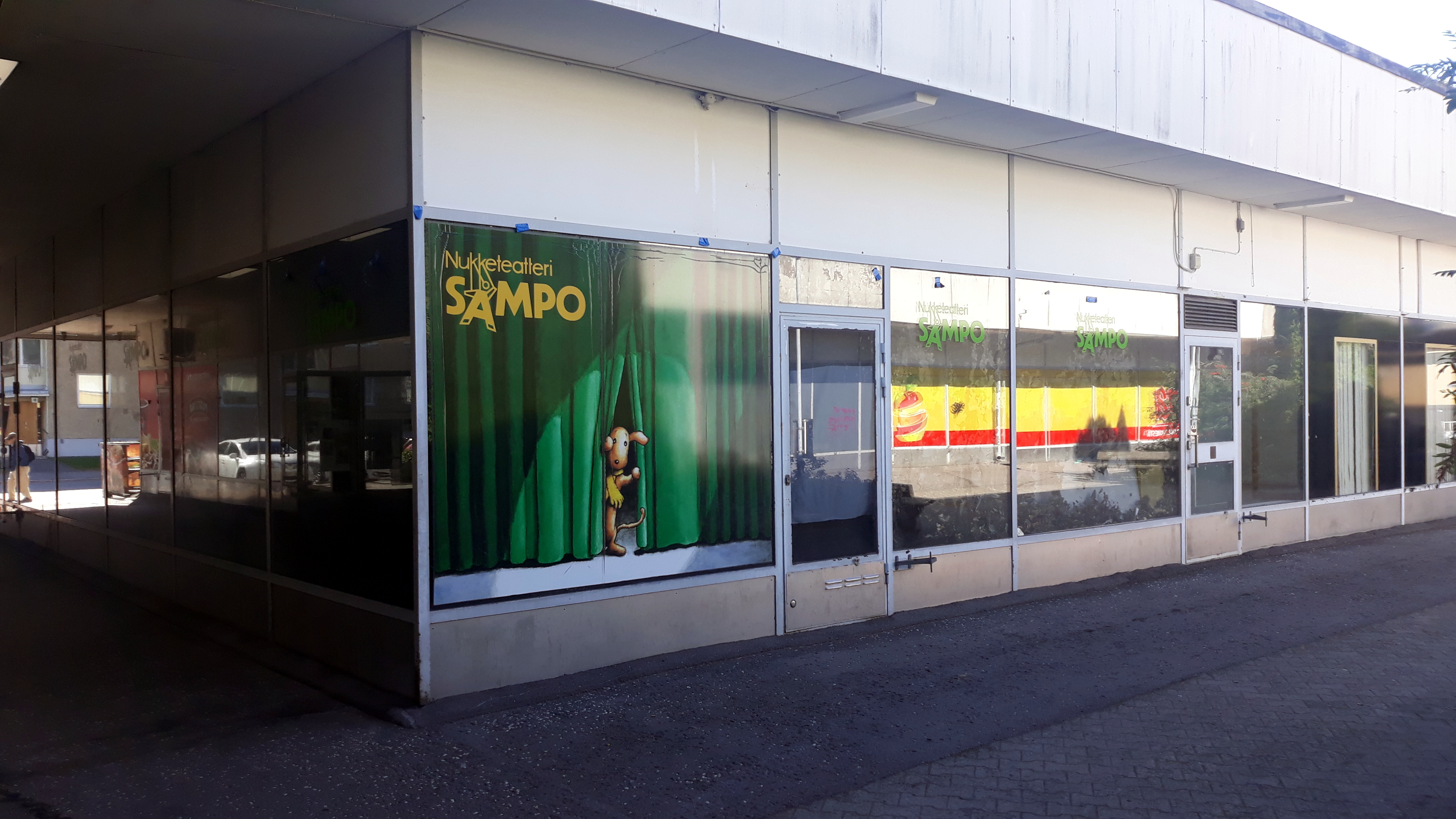 Old premises of puppet theatre Sampo in Puotila shopping centre, Helsinki.